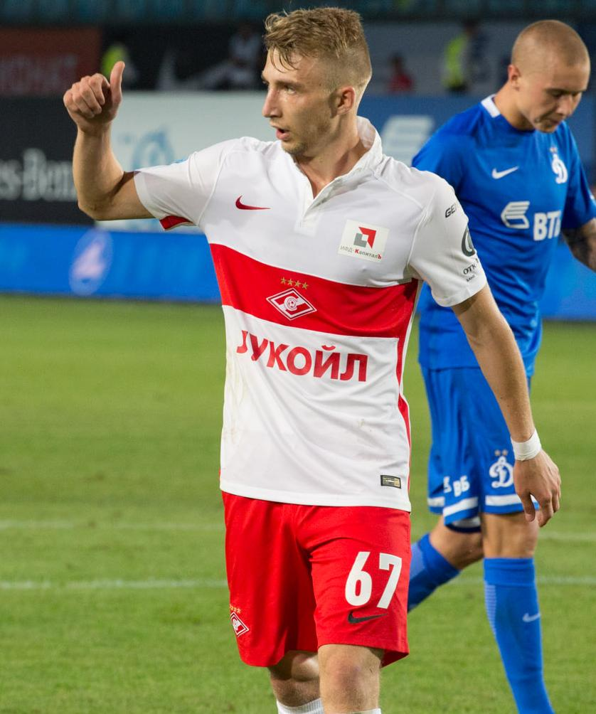 Artyom Fedchuck playing for FC Spartak-2 Moscow against FC Dynamo Moscow.